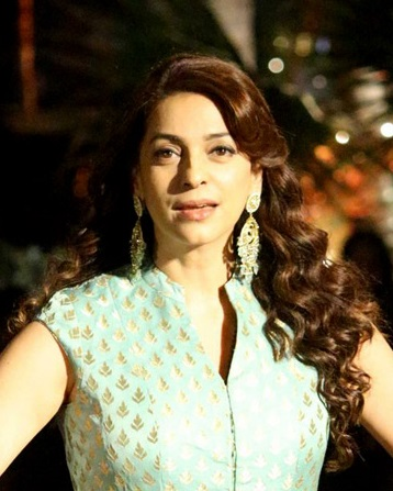 at Lakmee 2017